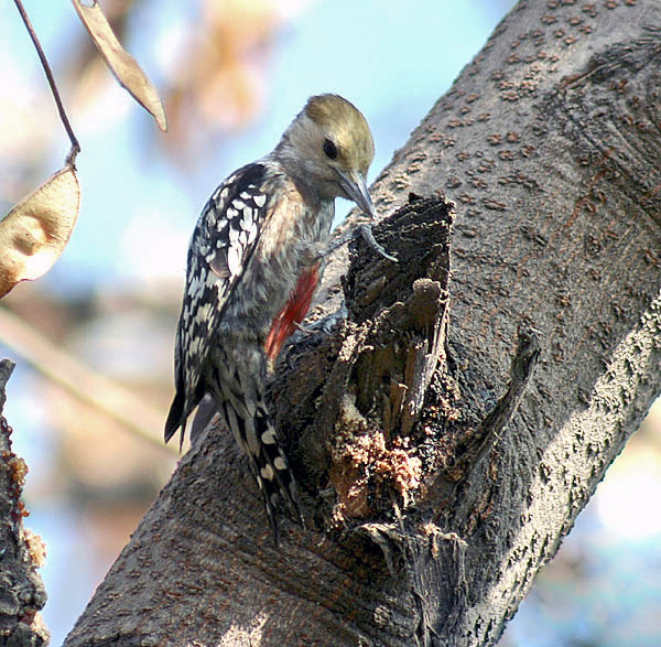 Yellow-crowned Woodpecker Leiopicus mahrattensis female (not male as stated in filename!) at Hodal in Faridabad District of Haryana, India.